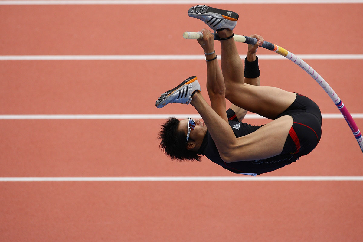 JUNE 28, 2008 - Track and Field : Daichi Sawano in aciton during the Men's paul vault final in the 92nd Japan Athletics Championships at Todoroki Stadium on June 28, 2008 in Kanagawa, Japan. (Photo by Tsutomu Takasu)